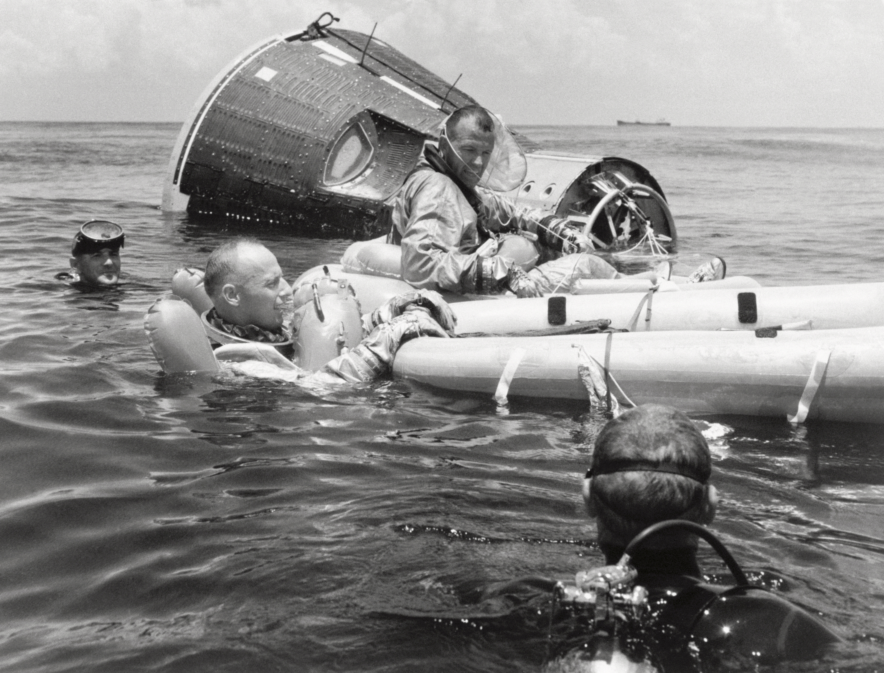 Prime crew for the Gemini 5 space flight, astronauts Charles Conrad Jr., (in water) and L. Gordon Cooper Jr., (in raft) practice survival techniques following successful egress from their Gemini Static Article V spacecraft in the Gulf of Mexico. Cooper is command pilot and Conrad is pilot for the Gemini 5 mission.